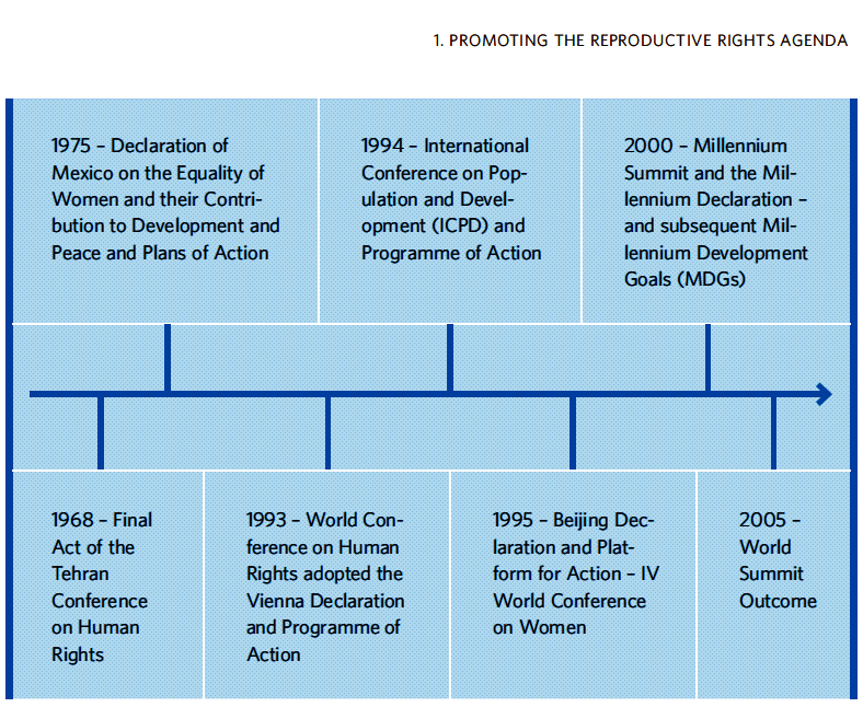 Timeline of UN-Conferences to promote the Reproductive Rights Agenda